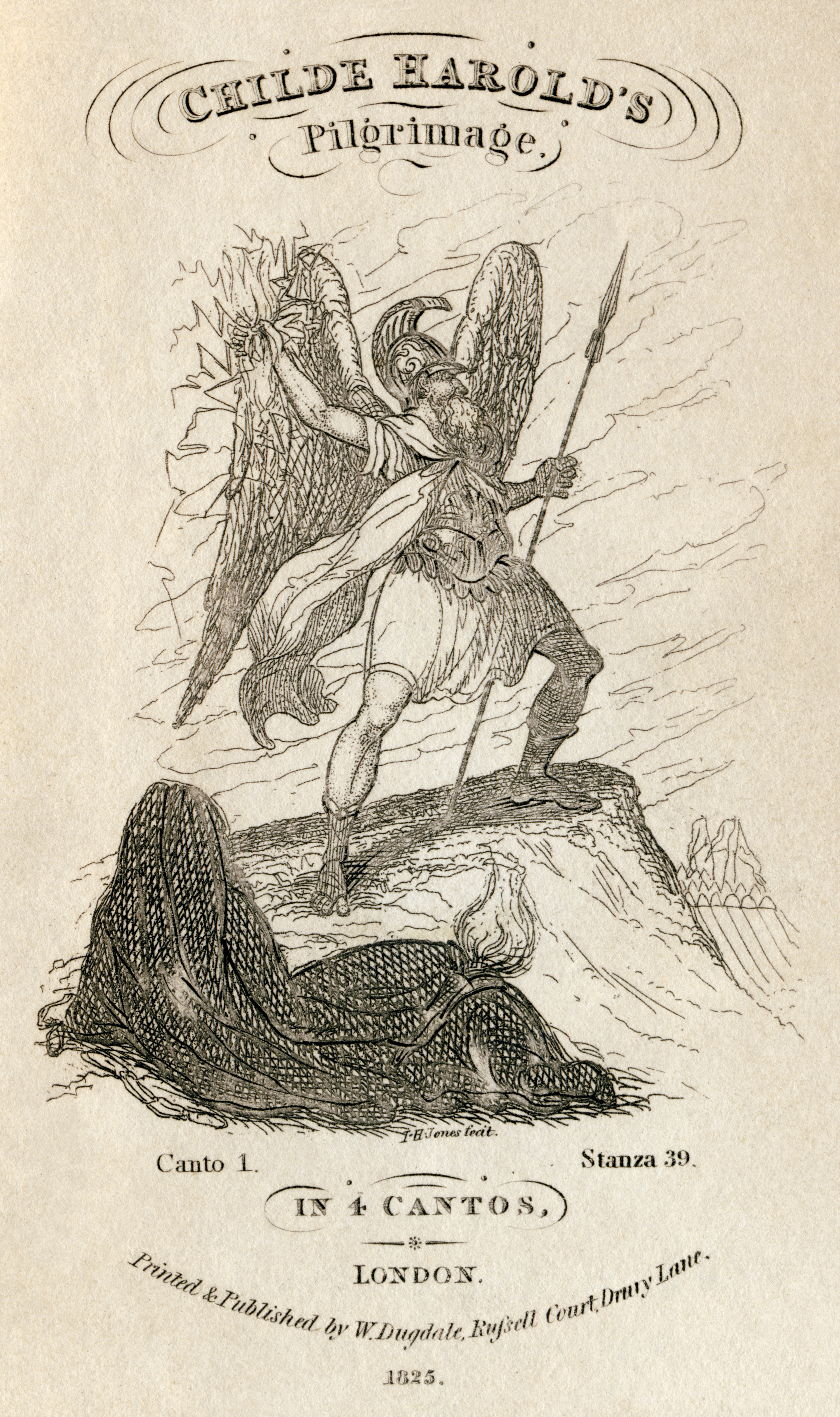 Frontispiece to the 1825/1826 (see below) edition of Childe Harold's Pilgrimage by Lord Byron, published by W. Dugdale, Russell Court, Drury Lane. The engraving is by I. H. Jones. The text depicted is Canto I, Stanza 39, which reads: Lo! where the Giant on the mountain stands, His blood-red tresses deep'ning in the sun, With death-shot glowing in his fiery hands, And eye that scorcheth all it glares upon; Restless it rolls, now fixed, and now anon Flashing a far,—and at his iron feet Destruction cowers to mark what deeds are done. For on this morn three potent nations meet, To shed before his shrine the blood he deems most sweet.